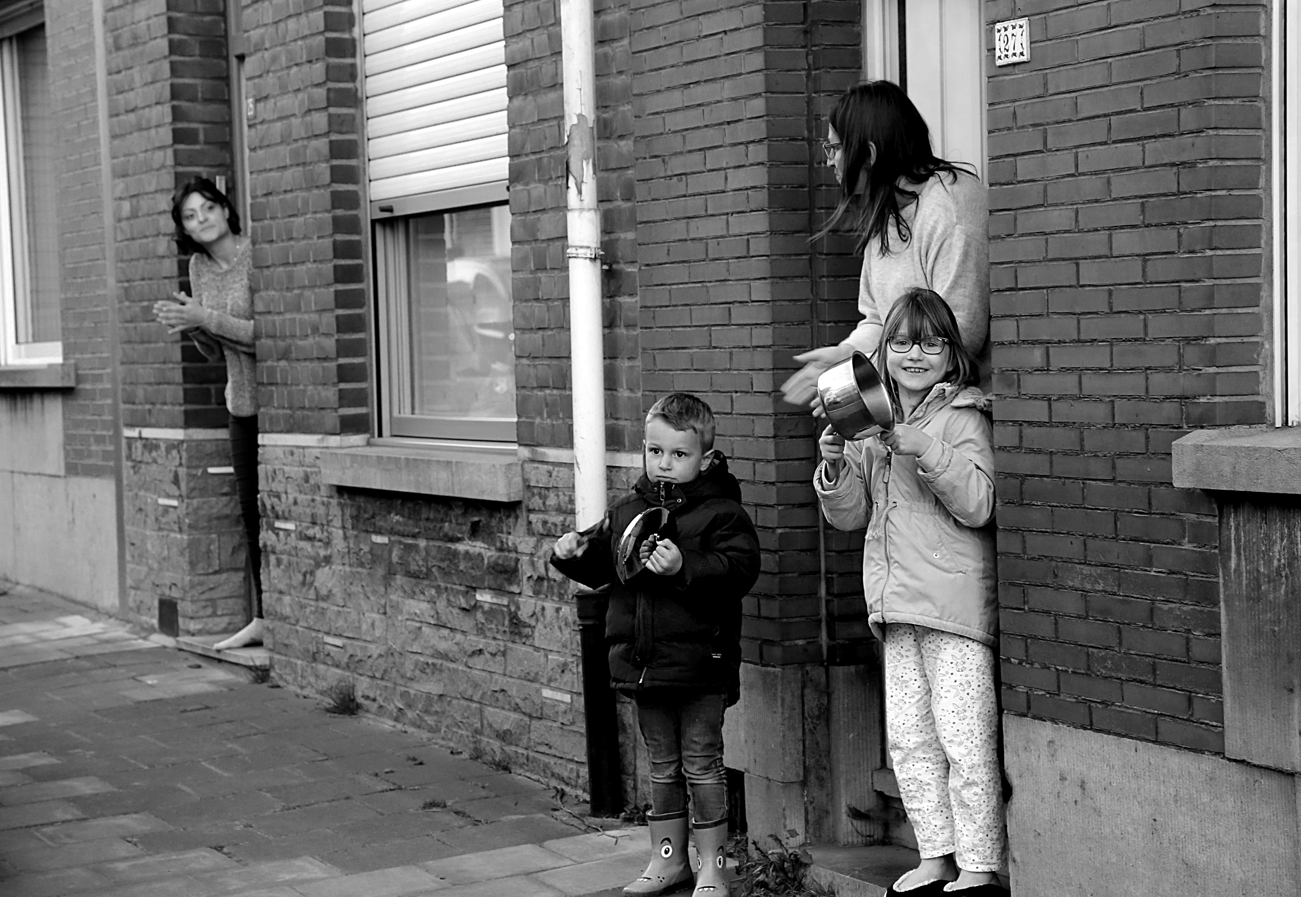 People clapping at their doorstep (at around 8.00 p.m) to thank and encourage caregivers during the Covid-19 pandemic. Photo taken in Mouscron, Belgium.